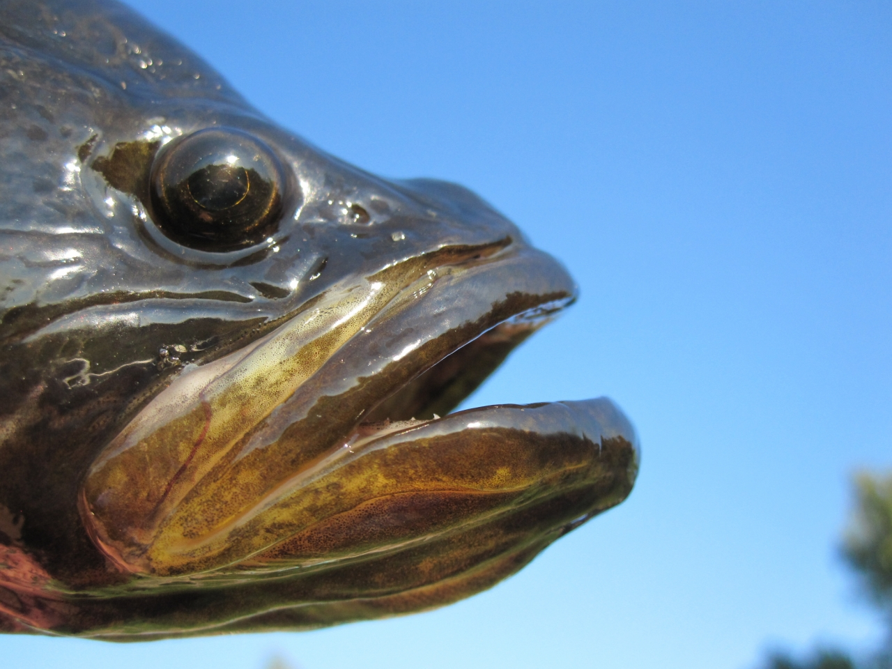 Perccottus glenii (Chinese sleeper)